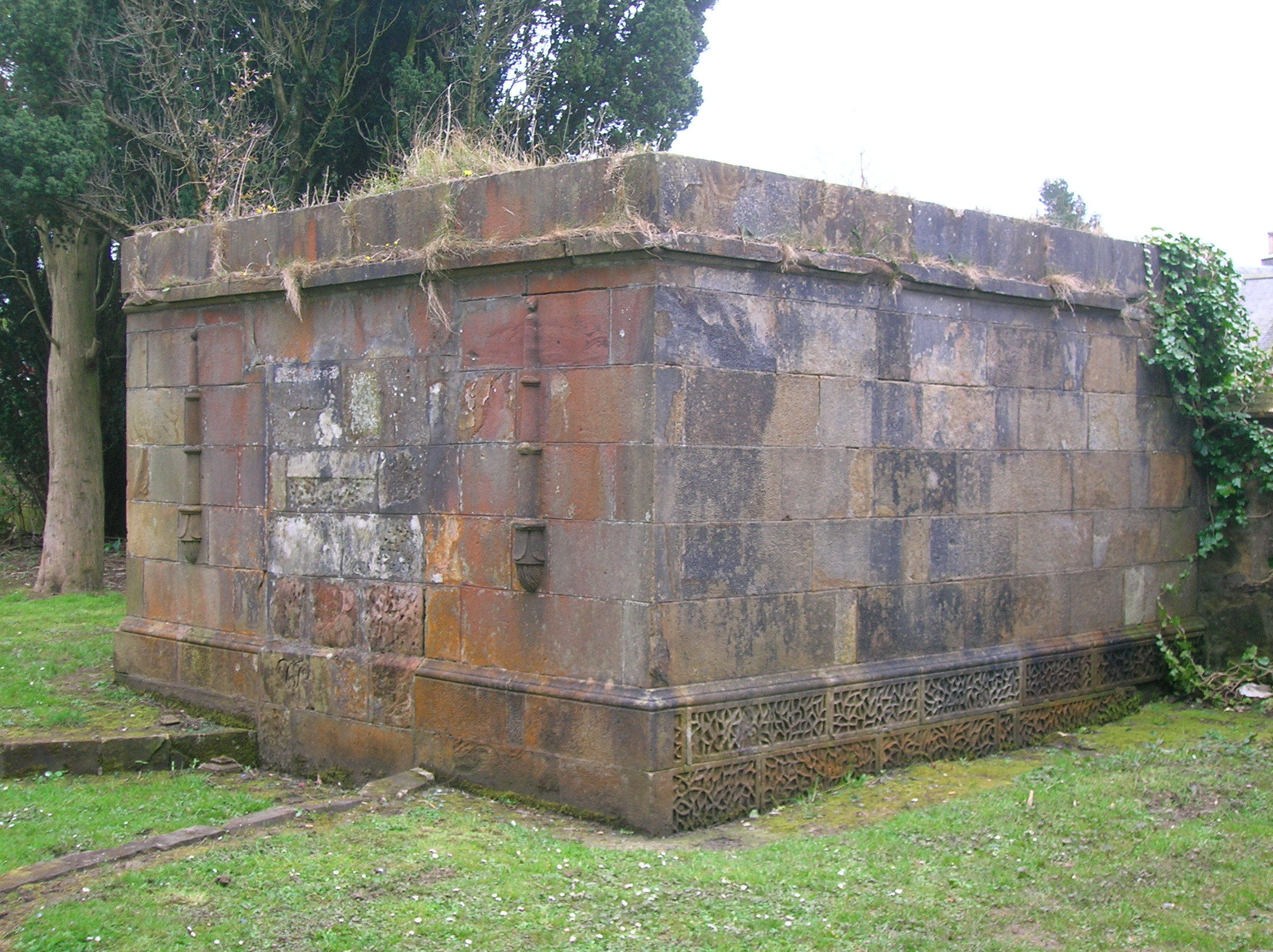 Mausoleum of the Cunninghames of Lainshaw in the Laigh Kirk, Stewarton, Ayrshire, Scotland.